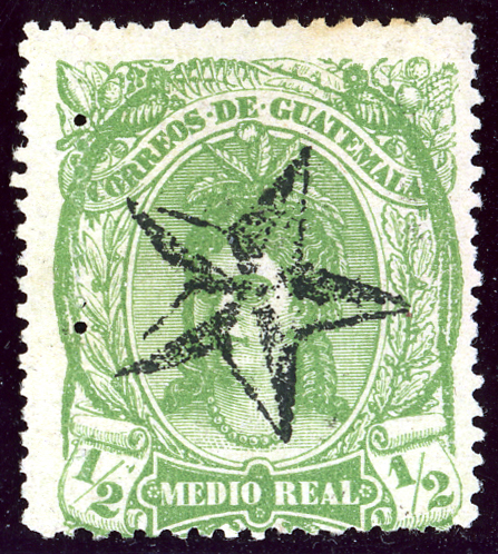 Stamp of Guatemala, 1/2 Real issue 1878, cancelled with a black star. Perforated 13,5. Yvert N°11.